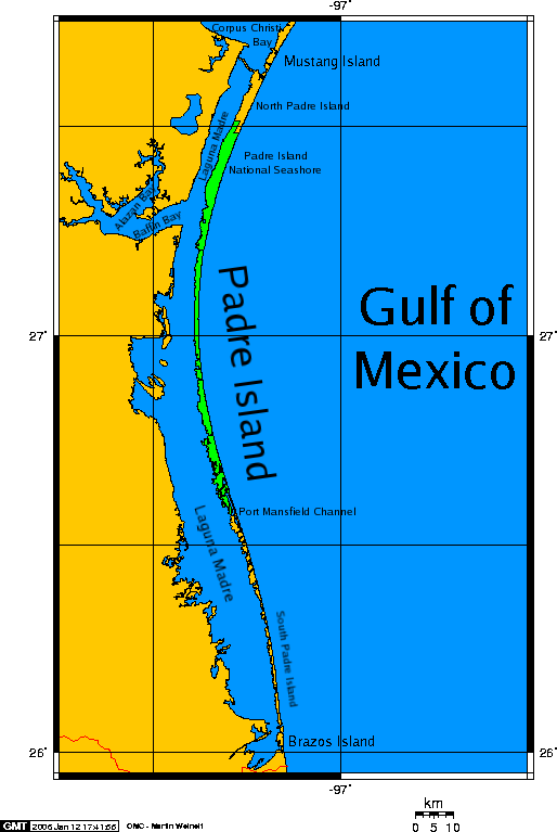 A map of Padre Island — a Gulf Coast Barrier island of Texas. Credits The map was created with this online map creation tool.